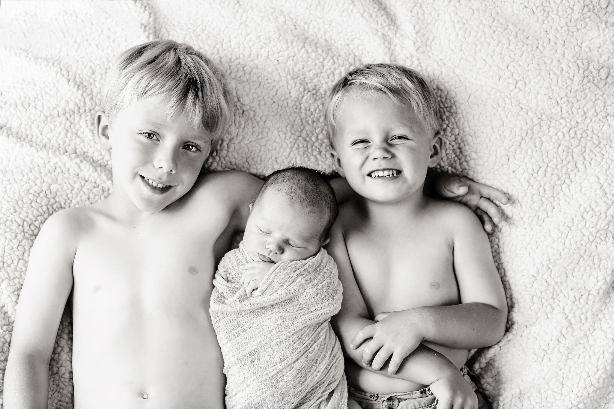 500px provided description: Last one tonight of this cute newborn session done in August....These big brothers were so proud! [#Brothers ,#Baby ,#Boys ,#Newborn ,#Siblings]